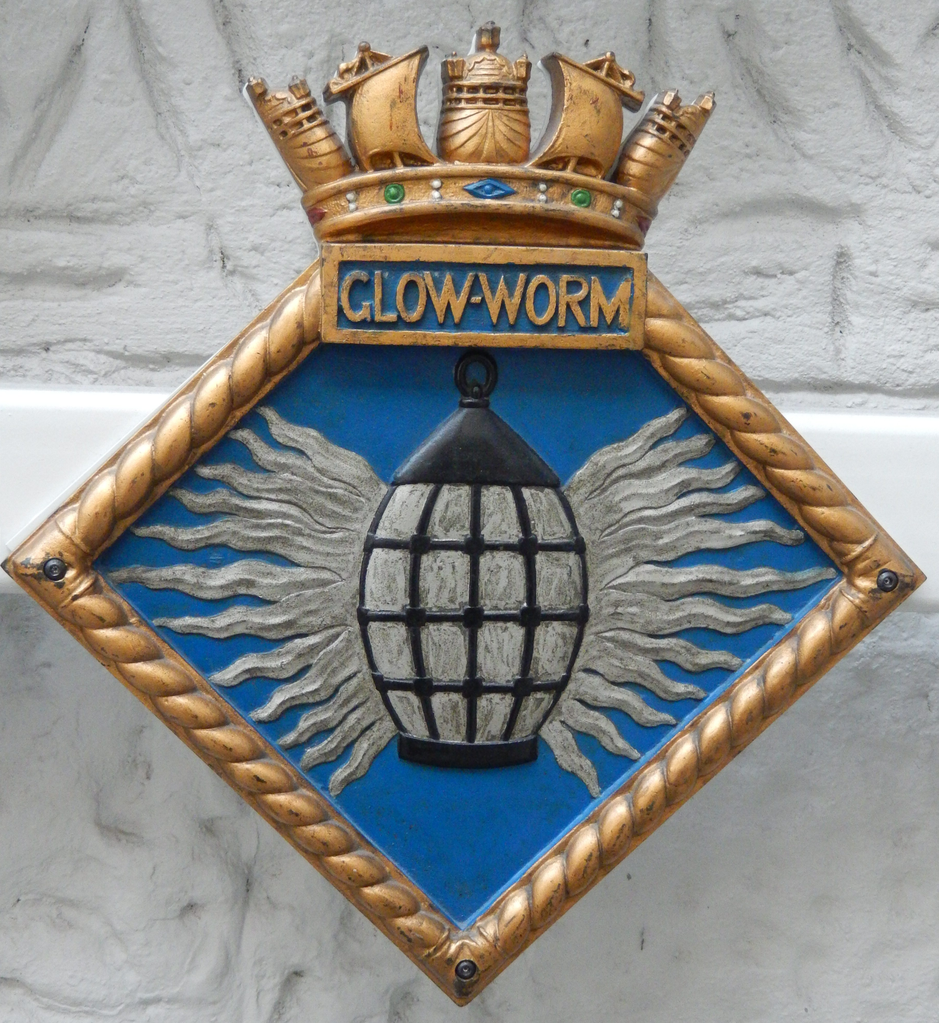 Badge of HMS Glow-worm National Maritime Museum, Greenwich